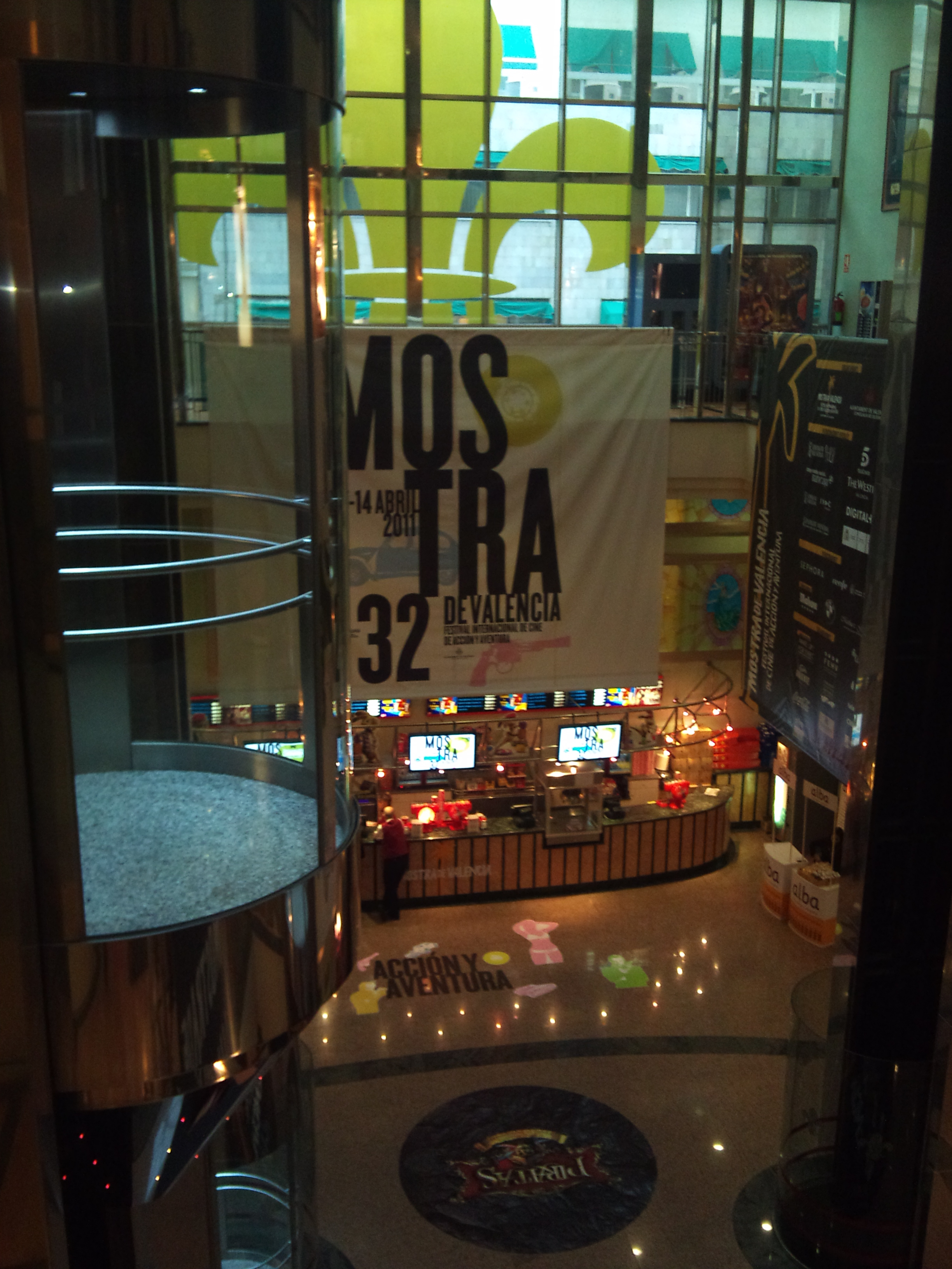 Interior of the Lys Theatre, Valencia, during the XXXII Mostra de Cinema.